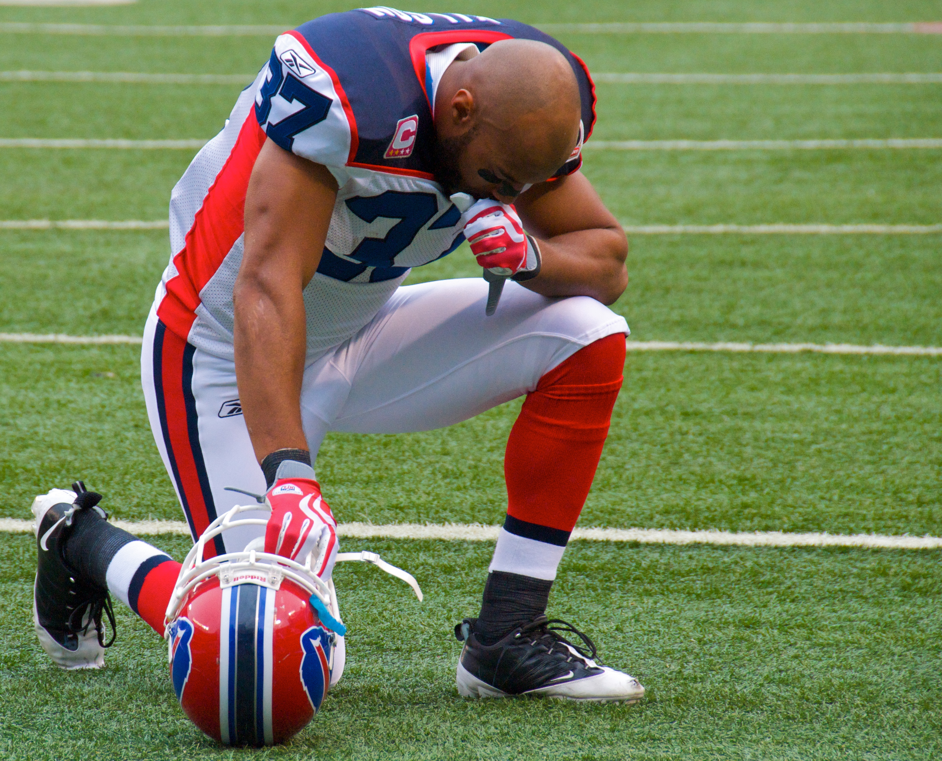 George Wilson, safety for the Buffalo Bills (American football), prays before a game against the New York Jets.